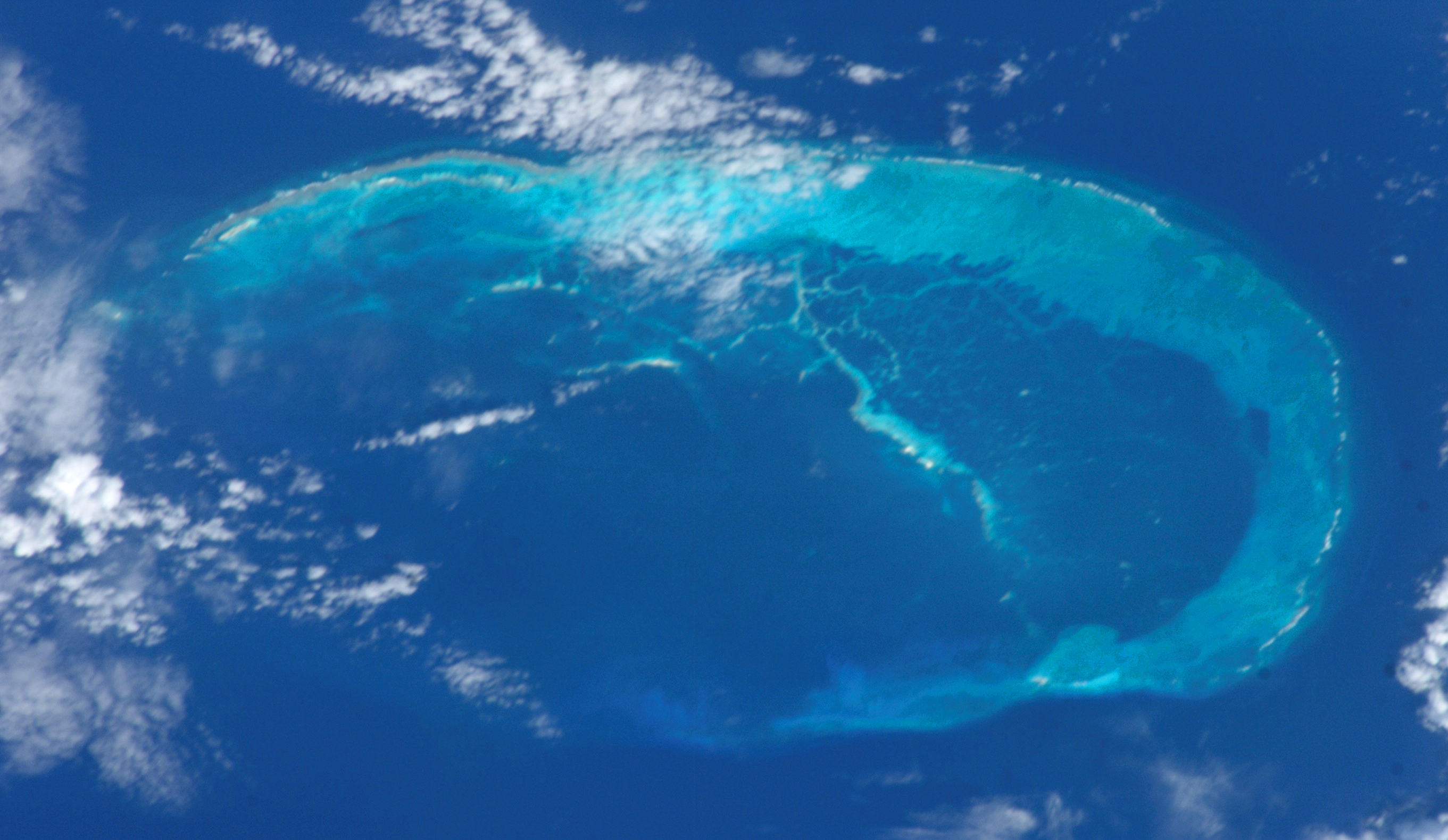 NASA astronaut image of French Frigate Shoals, Northwestern Hawaiian Islands